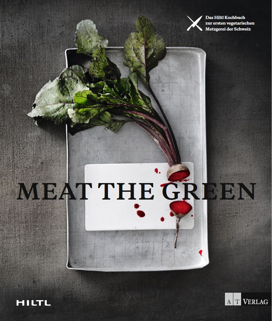 Meat the Green Bookcover - cooking book